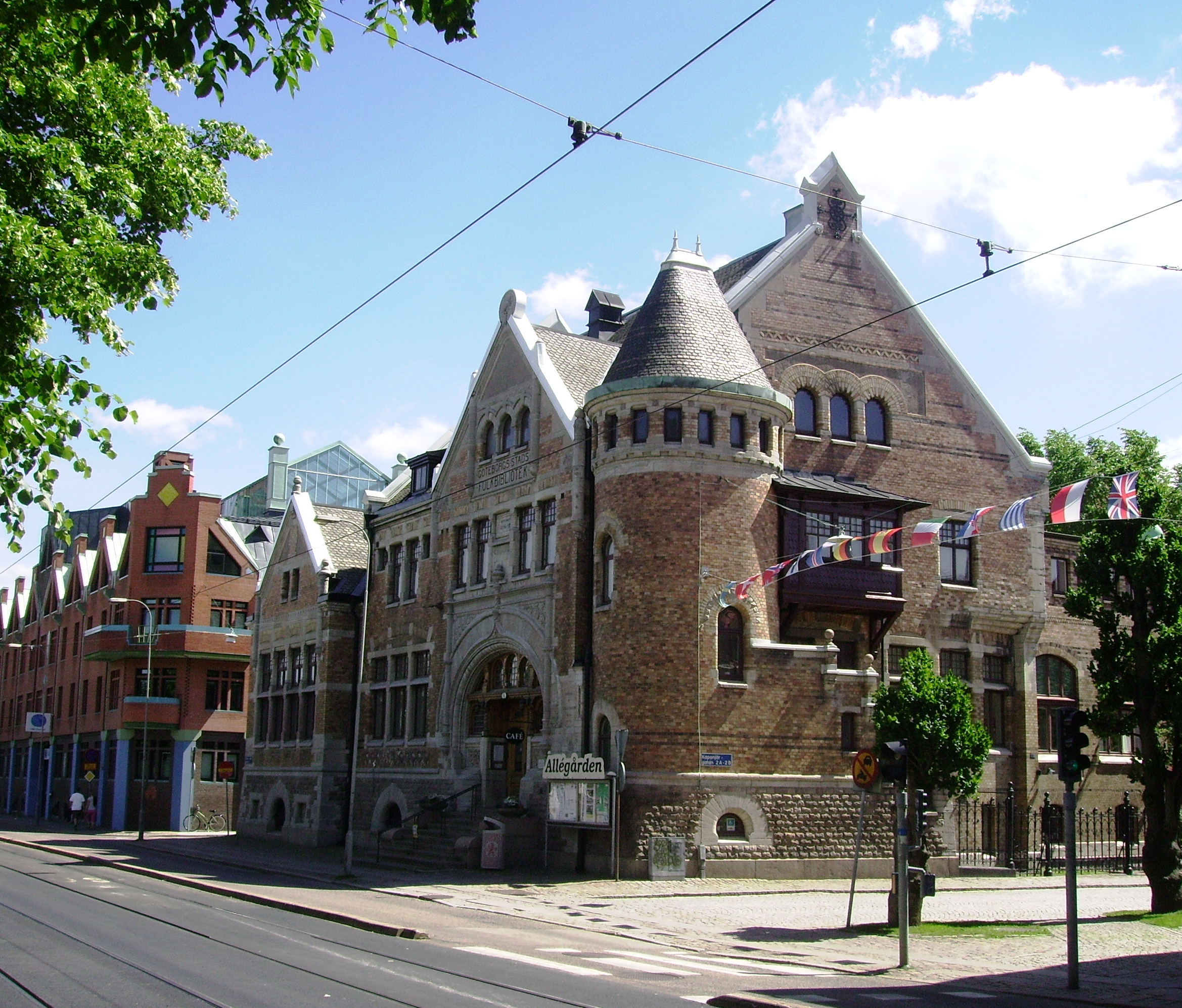 Picture of Dicksonska folkbiblioteket in Gothenburg, a library